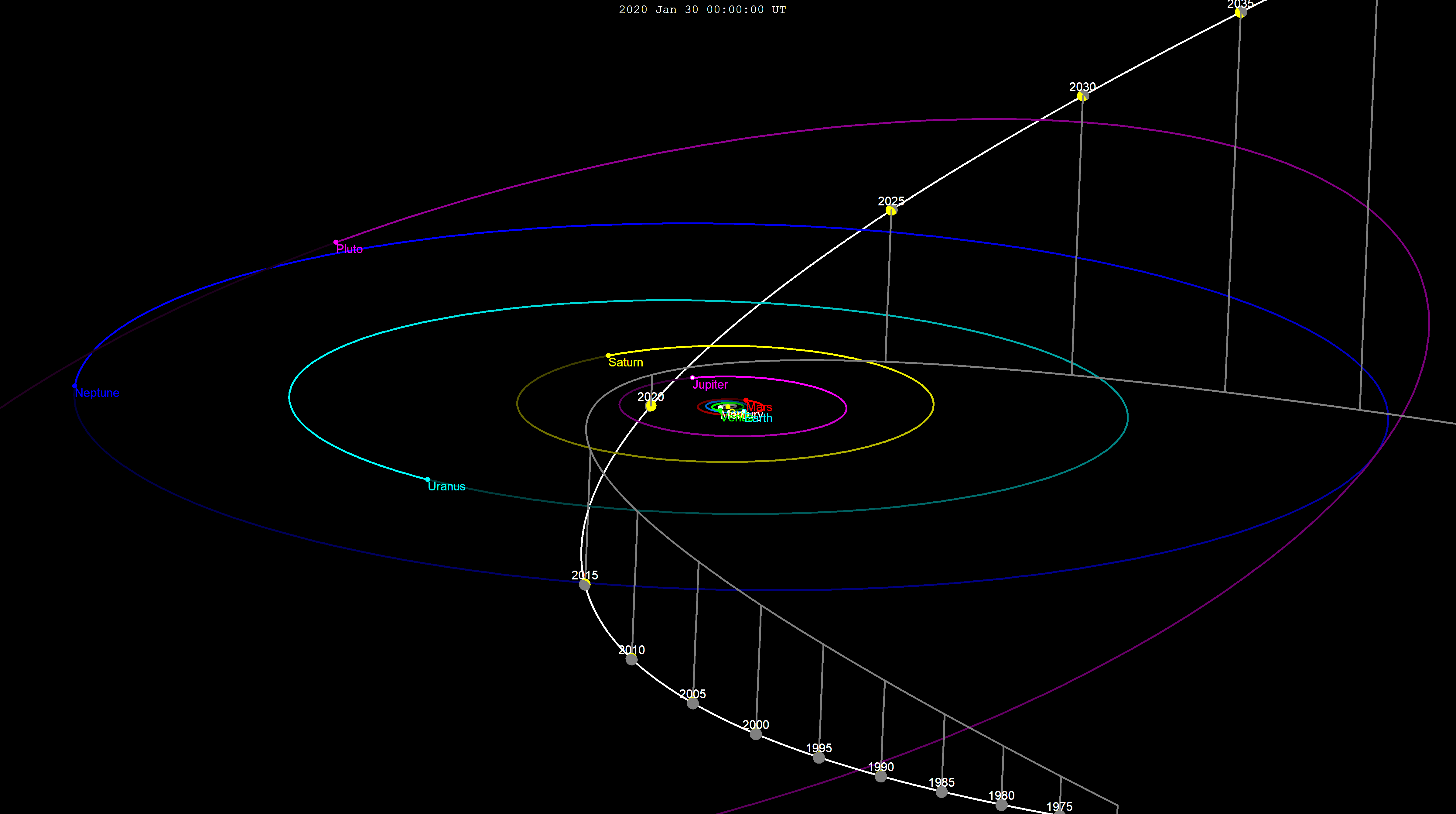 C/2017 U7 hyperbolic orbit, 5 year motion markers